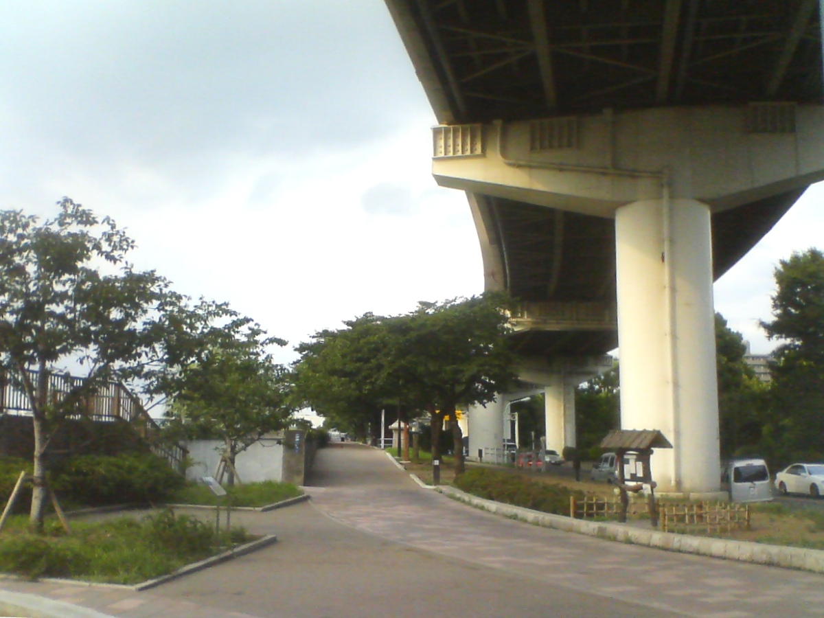 Sumida park (Mukojima area) in Tokyo,Japan.It is The Metropolitan expressway which goes over the park.